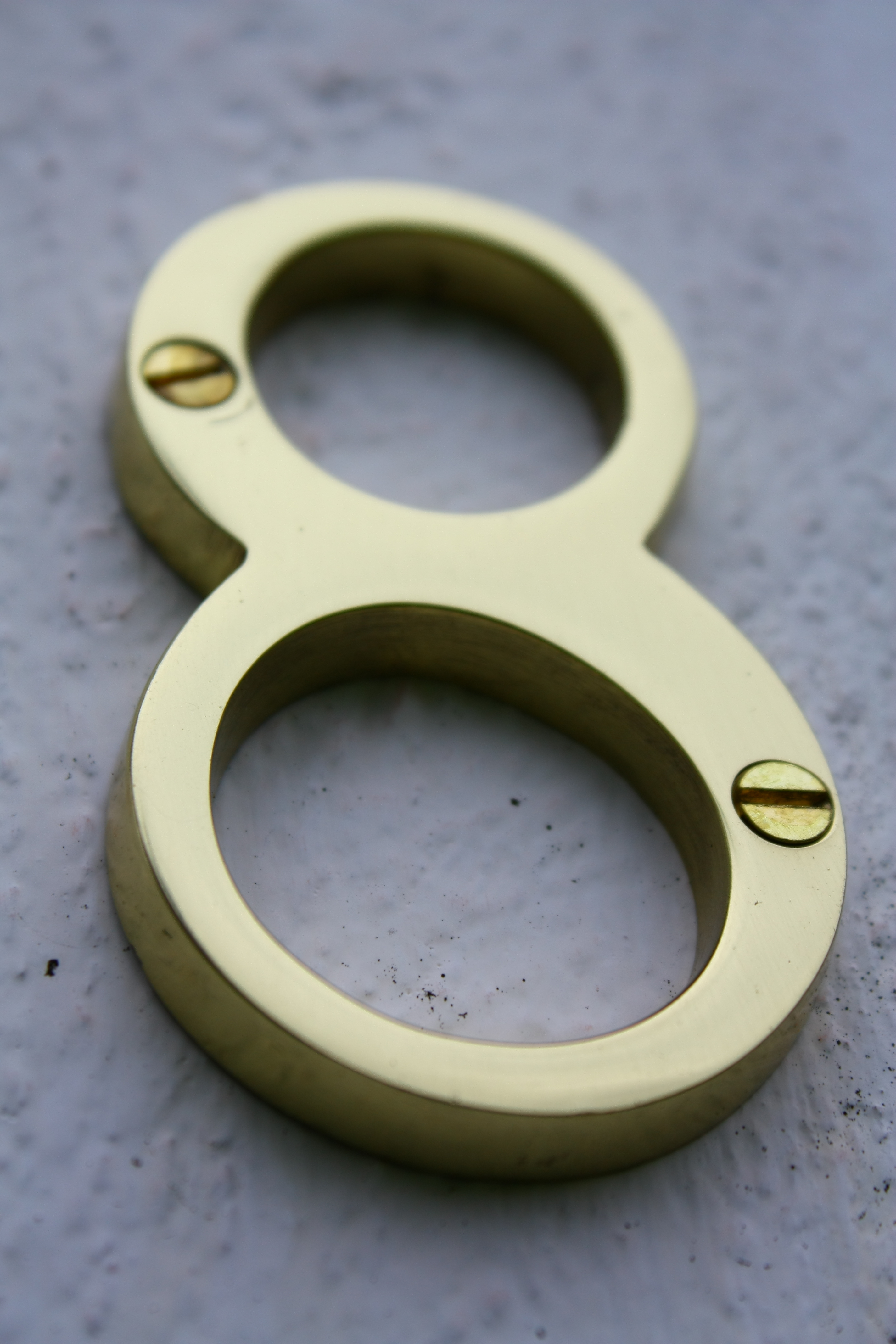 A metallic number (8) used to indicate the street address of a house.